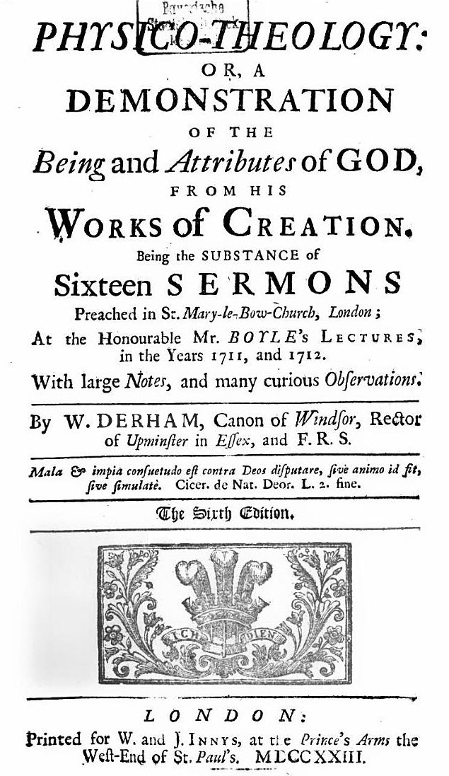 Title page of Physico-Theology by William Derham, first published 1713, this edition 1723.